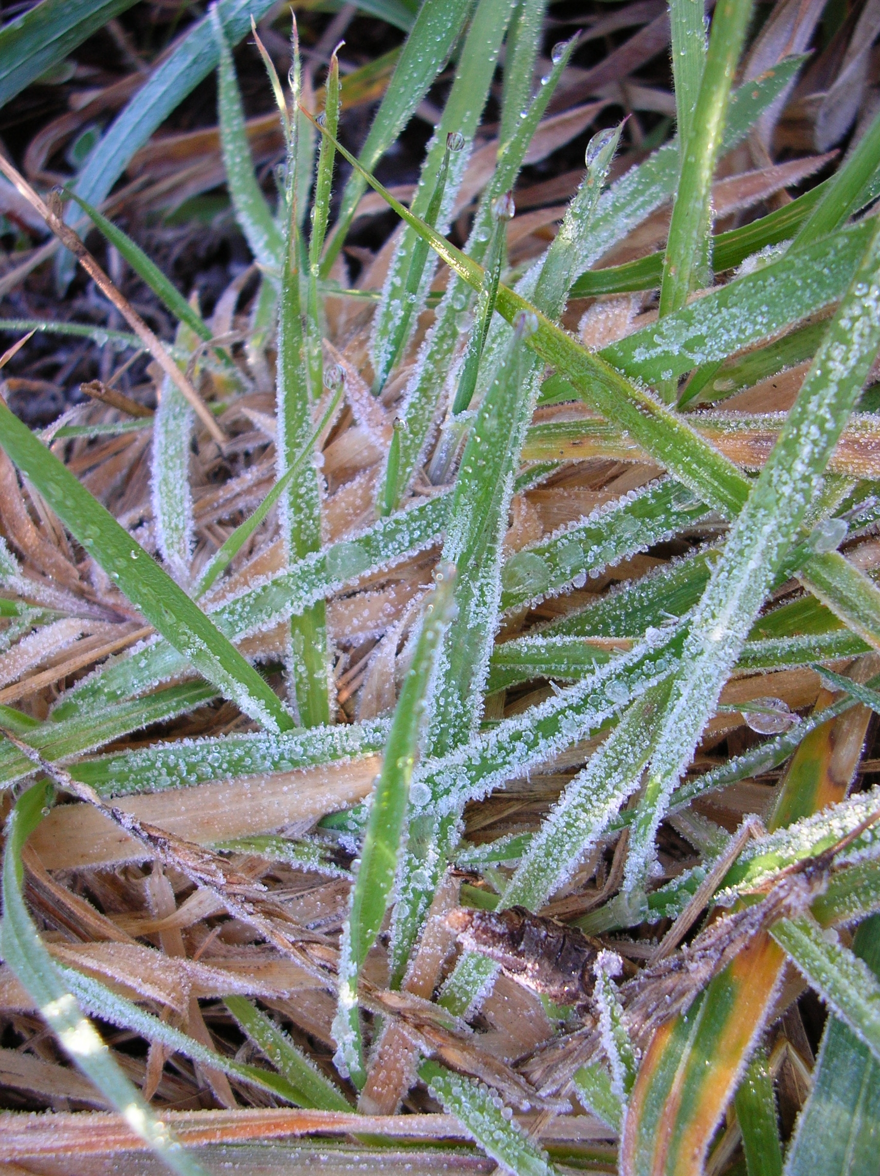 Holcus lanatus (with frost). Location: Maui, Puu Nianiau